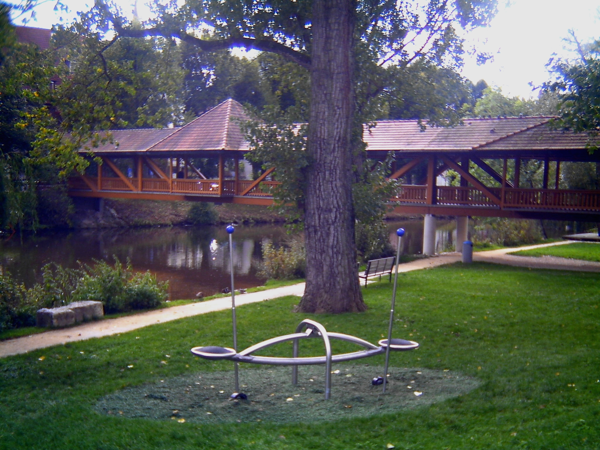 The park at the Danube in Tuttlingen